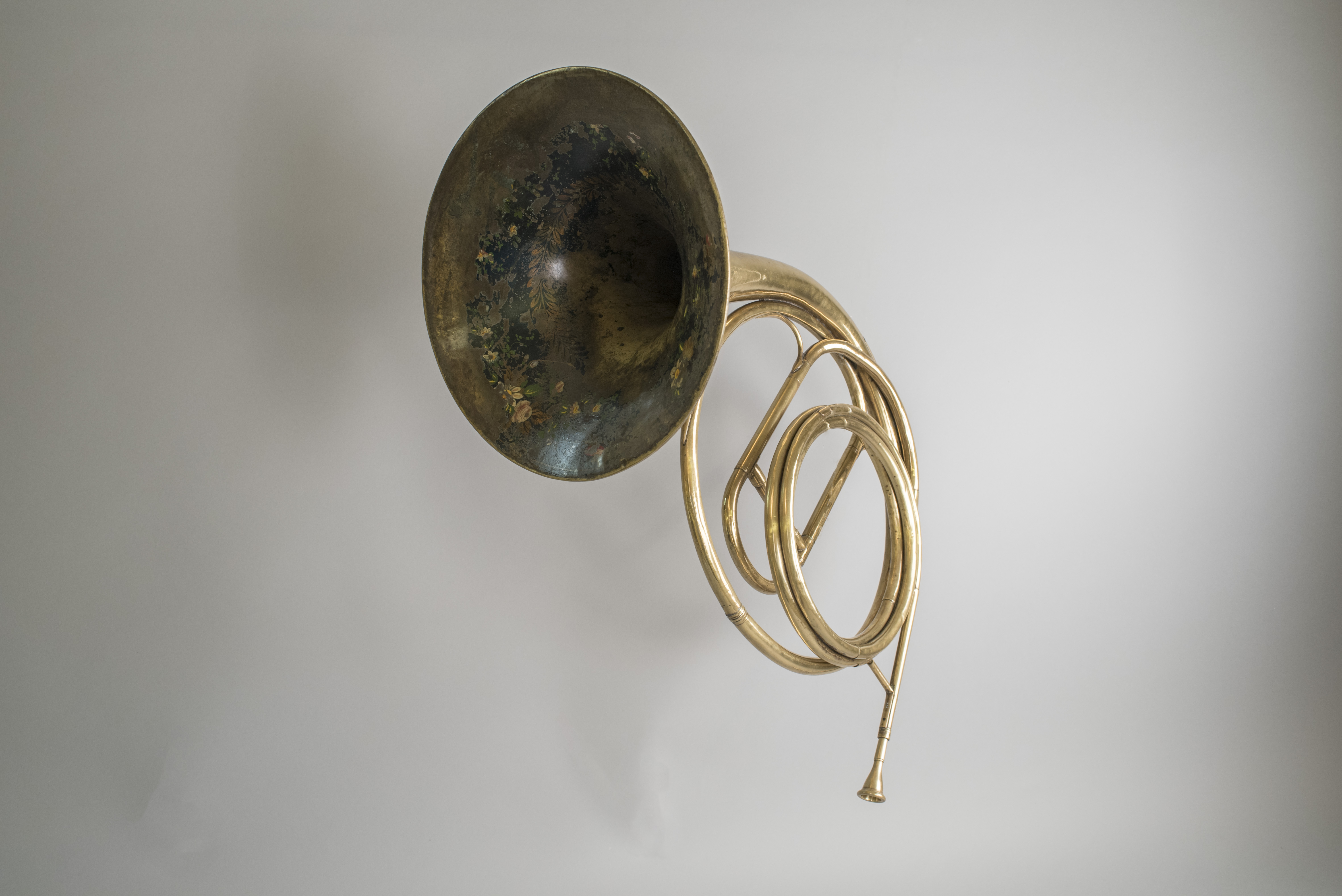 Natural horn, with a detail of the decorating flowers in the bell, at the Museu de la Música de Barcelona